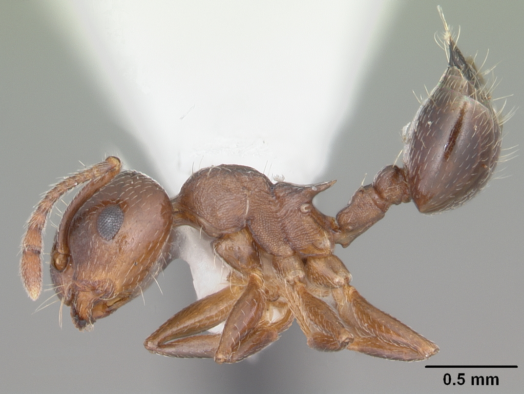 Profile view of ant Crematogaster lineolata specimen casent0103781.